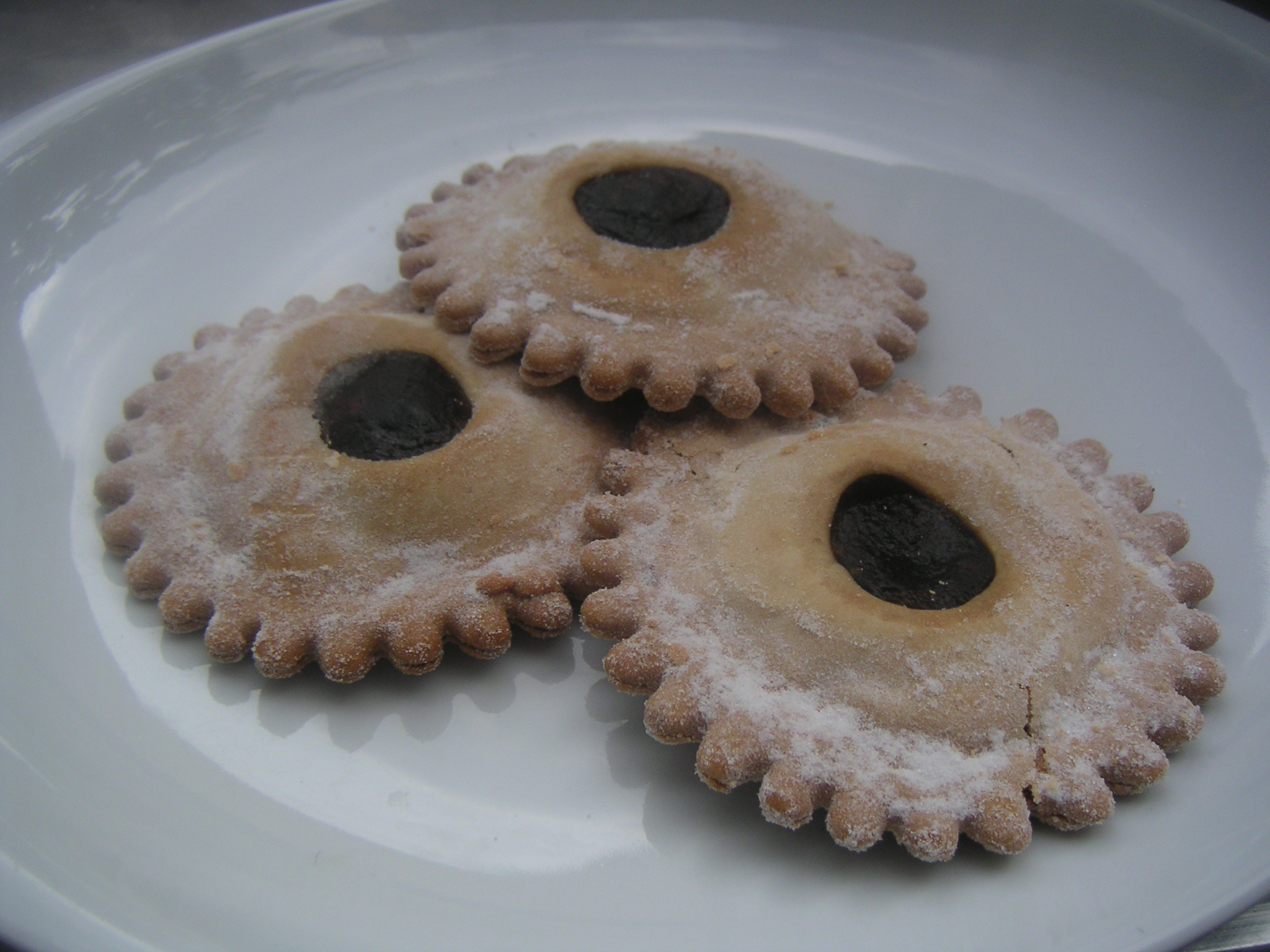 Little Menorquian cakes known as 'crespells'. In Majorca 'crespells' are different, very similar to Minorquian 'crespellines'.